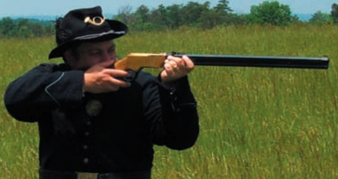 Raise rifle to firing position, sighting along barrel. Simultaneously, incline body slightly forward to brace against recoil of piece. stepping back with right foot to brace body. Place right forefinger into trigger guard, and rest lightly on trigger. Apply steady pressure to trigger.